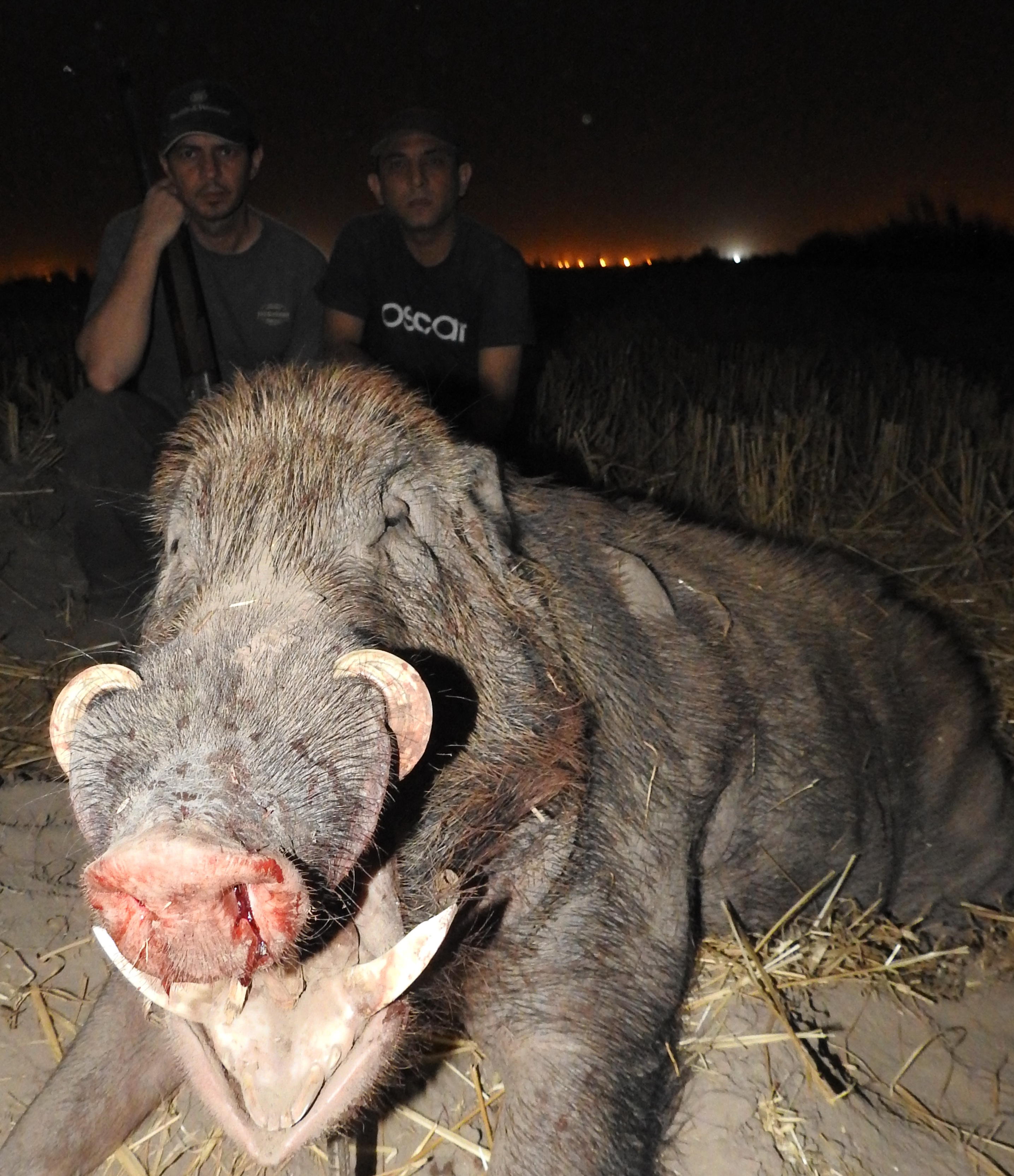 Wildboar hunting by Hesham Usama Khan 2017